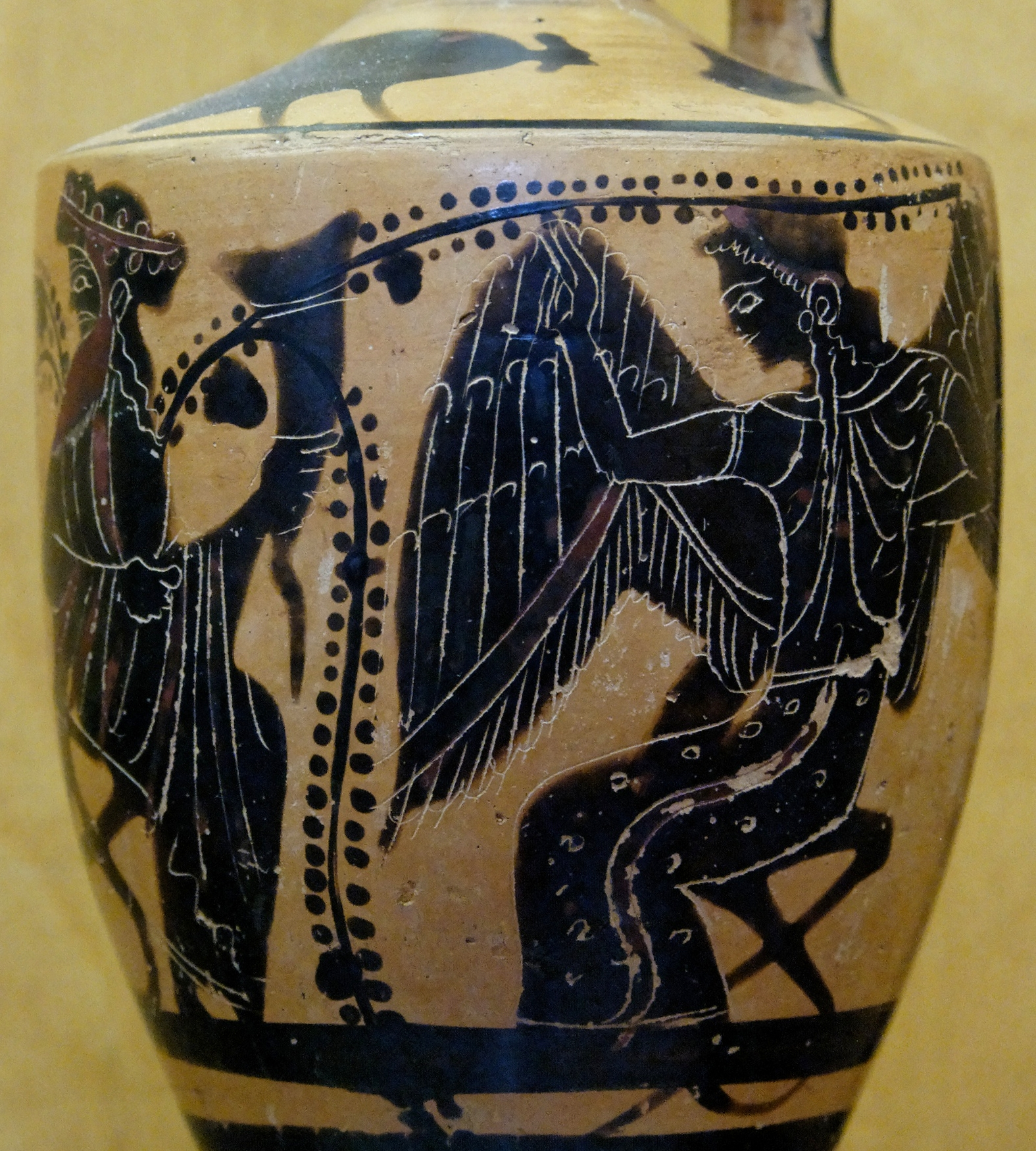 Dionysos (left) between two winged figures (one of which can be seen here on the right); on the shoulder: cock between ivy leaves. Attic black-figure lekythos, late 6th–early 5th century BC.